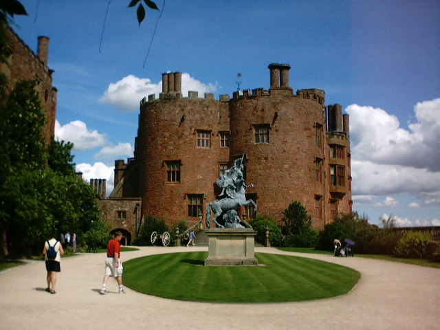 Powis Castle. From just inside gate. The famous lead statue of 'Fame riding Pegasus' is in the centre of the circular lawn.